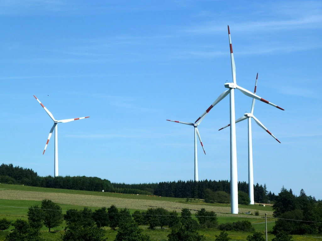 GE Wind Energy 1.5sl (three) and Enercon E-82 (one) wind turbines in the Windenergiepark Vogelsberg near Grebenhain, Hesse, Germany.